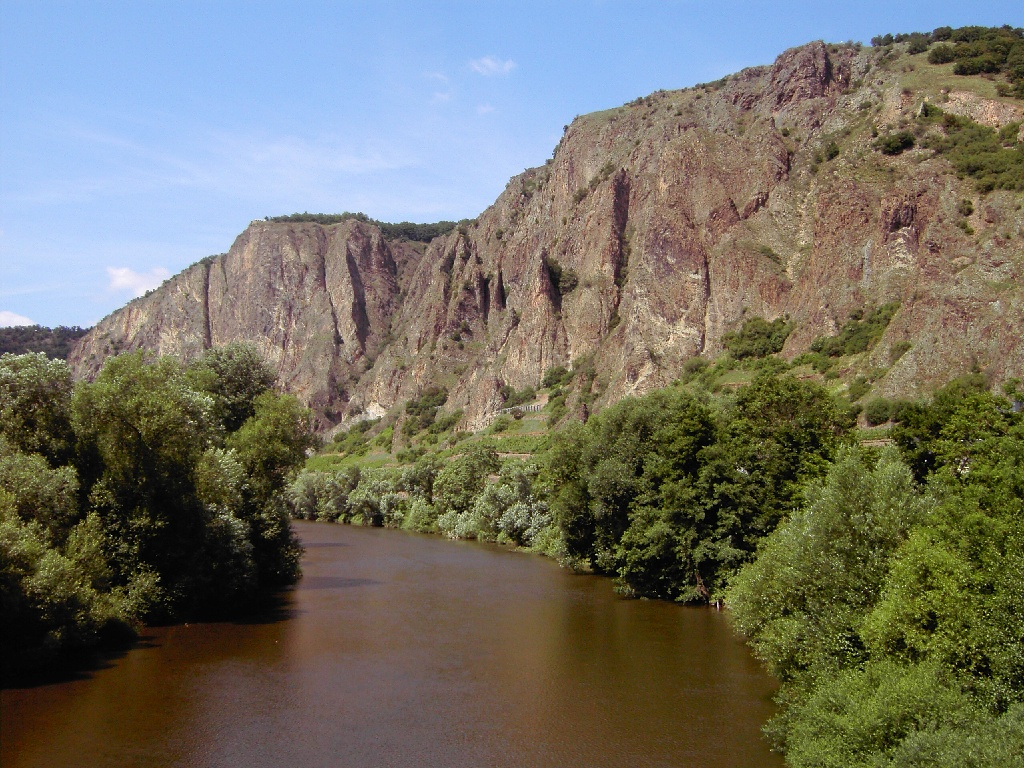 Rocks in the Nahe Valley at Bad Münster